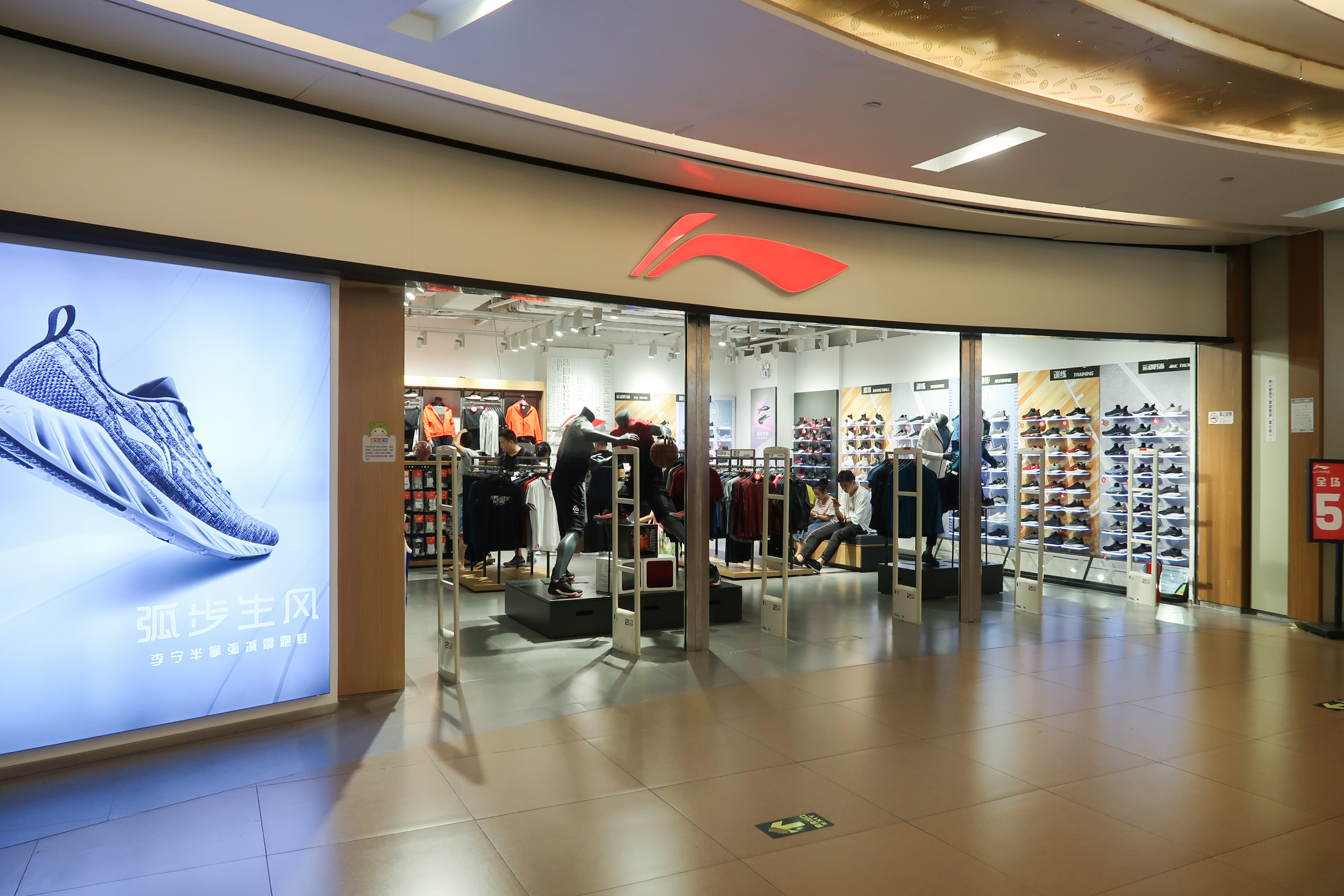 Li Ning in Bingo Space Shopping Center